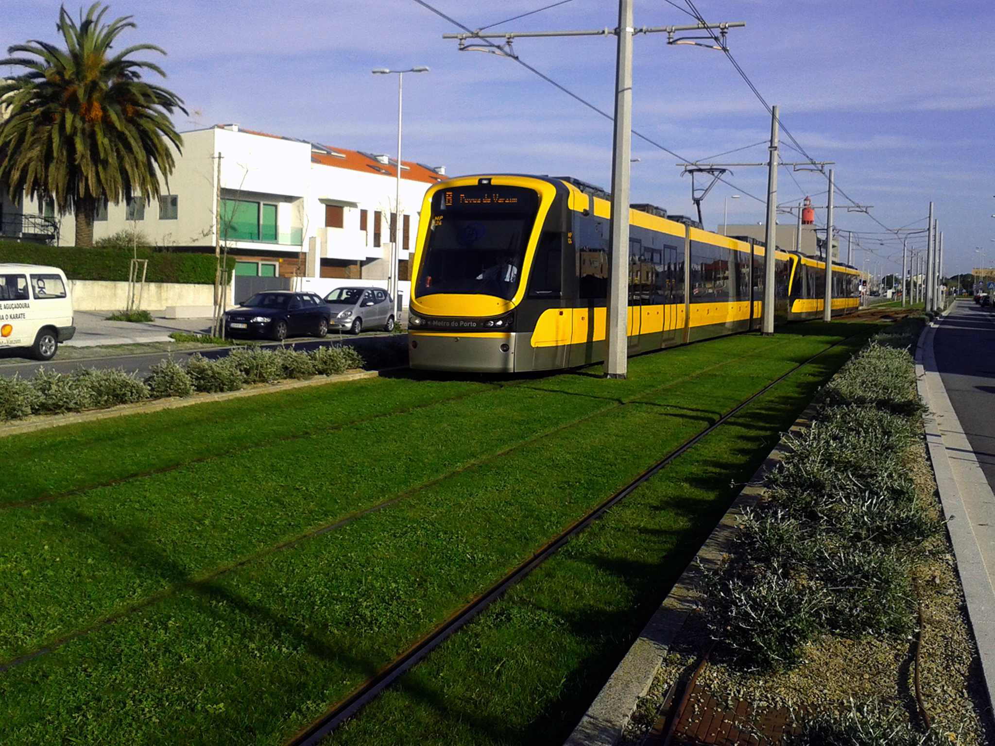 A Porto Metro Red Line tram-train leaving the São Brás station and crossing Penaldes neighboorhood.